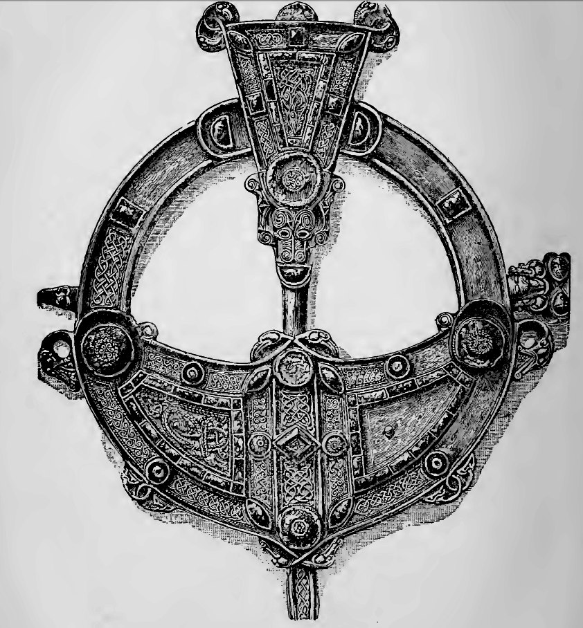 Sketch of the Tara Brooch